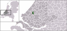 Location of Delft